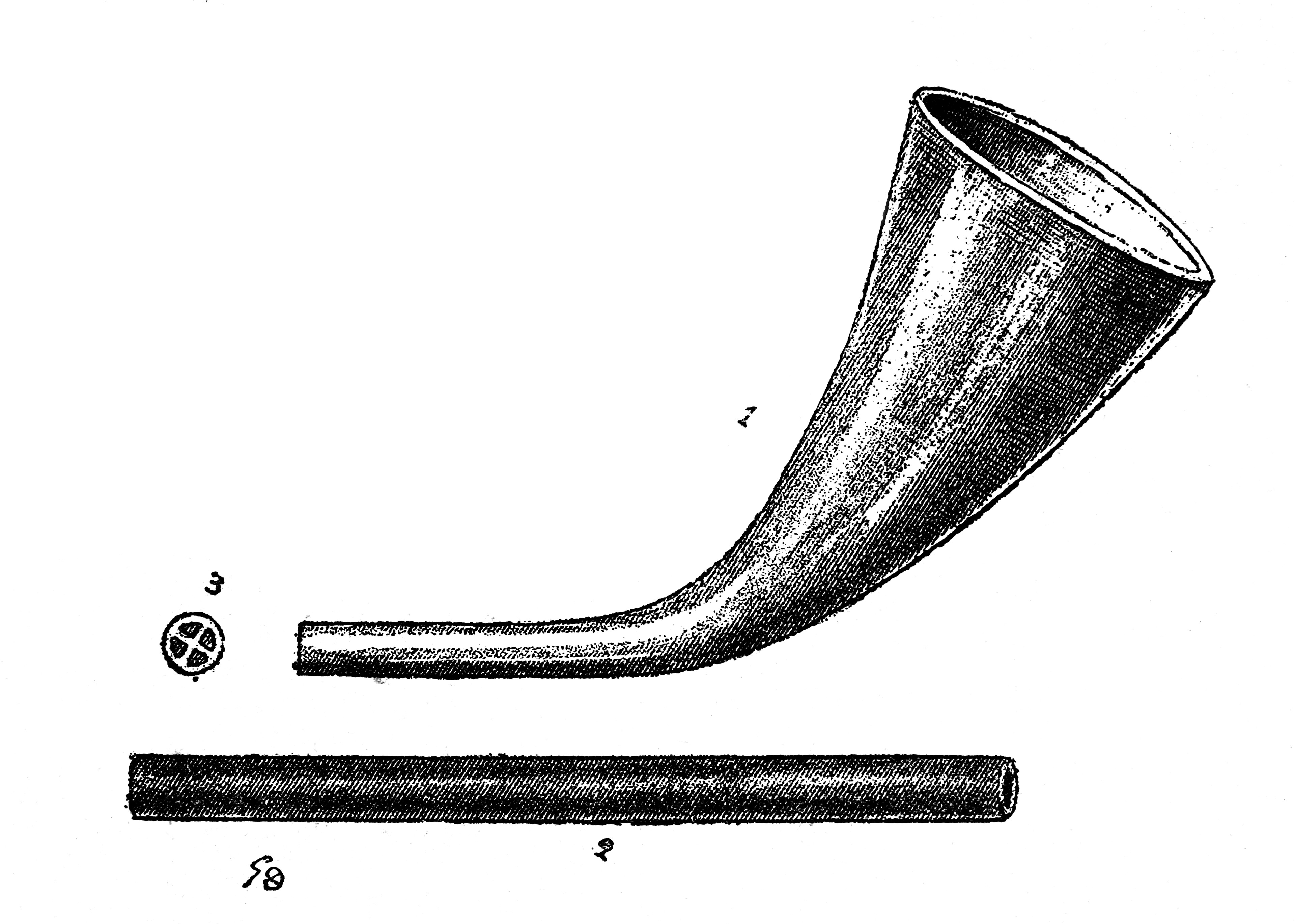 Baptismal syringes General Collections Keywords: Obstetrics